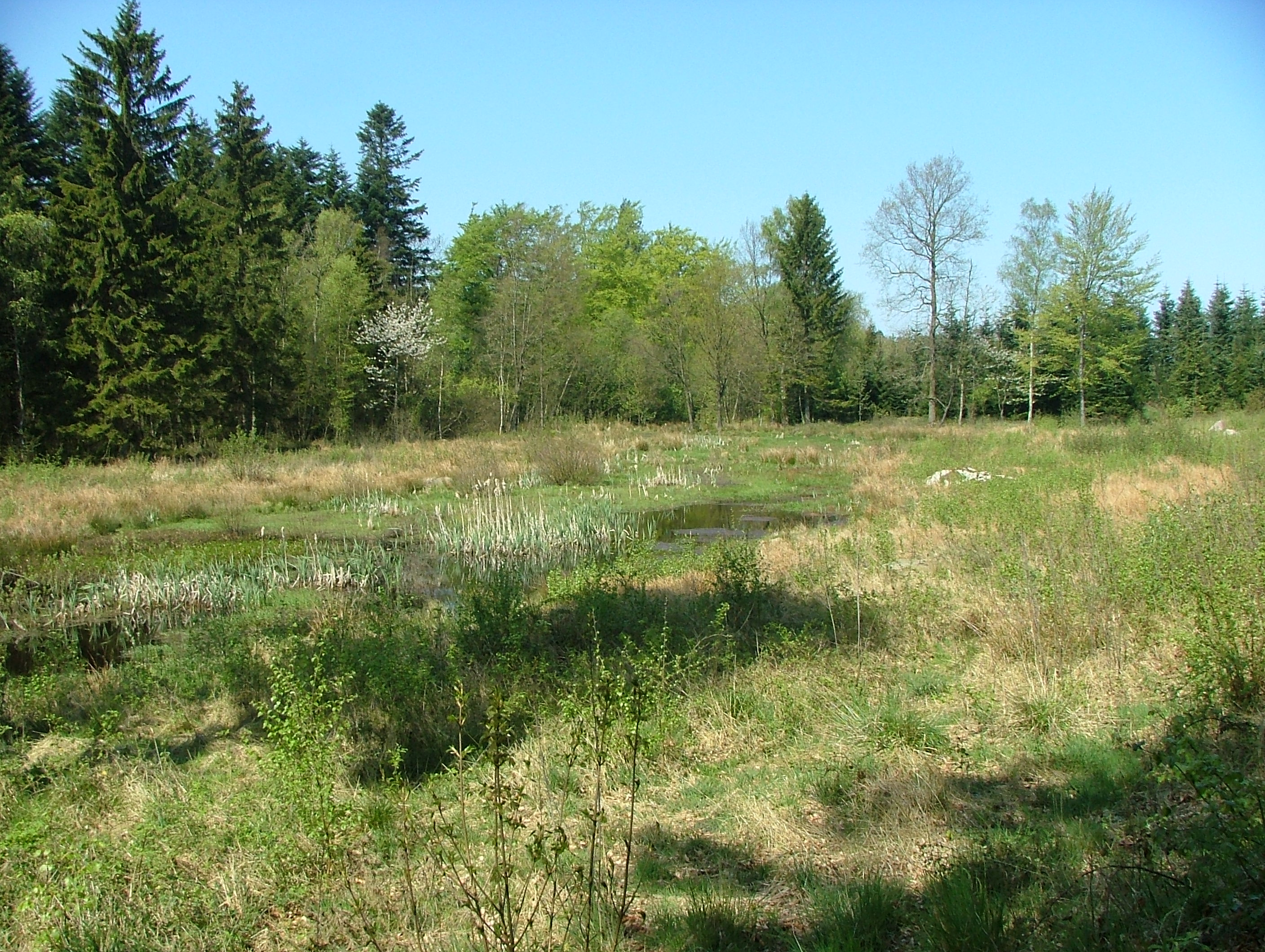 Oksemyr, a small moor in Paradisbakkerne, a forrest on Bornholm, Denmark. Oksemyr is an old word, literally meaning Ox Moor.